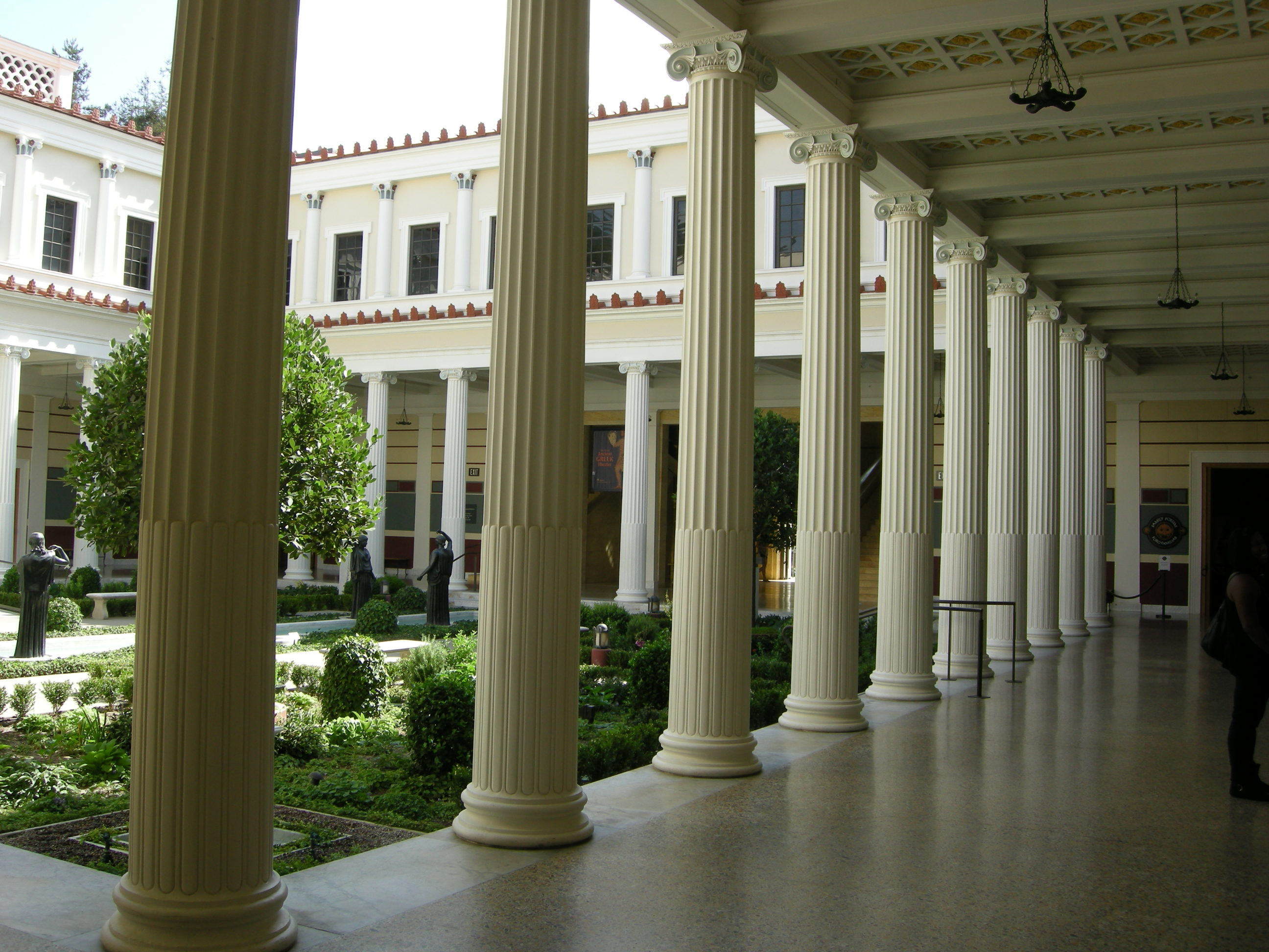 Central Peristyle courtyard garden of the Getty Villa Roman gardens, Los Angeles.